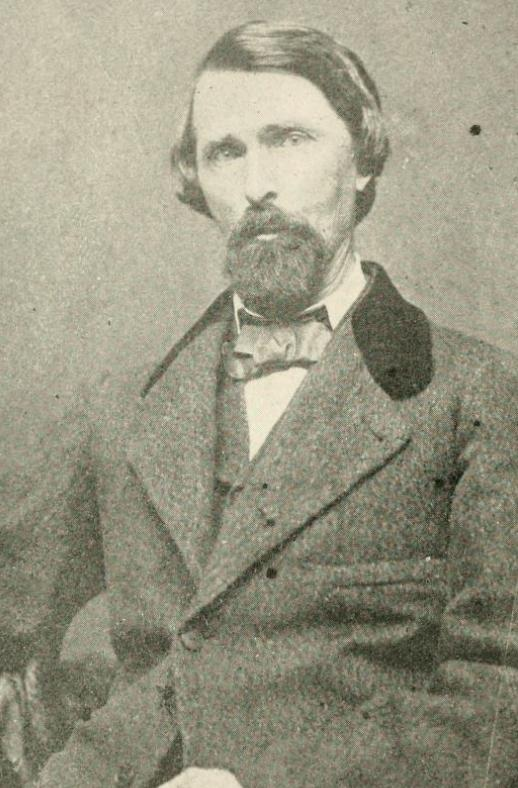 J.F.H. Claiborne, from "Life of Col. J.F.H. Claiborne" by Franklin L. Riley (1903)